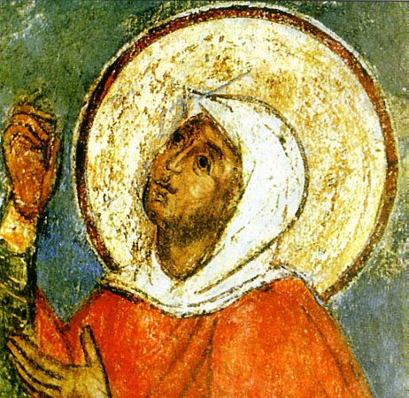 Greatmartyr Euphemia